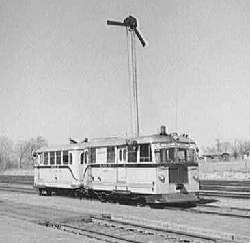 Kiowa, Kansas. An Atchison, Topeka and Santa Fe rail detector car. These cars are actually traveling scientific instruments, which not only detect faulty rails but also record the place and extent of the defect